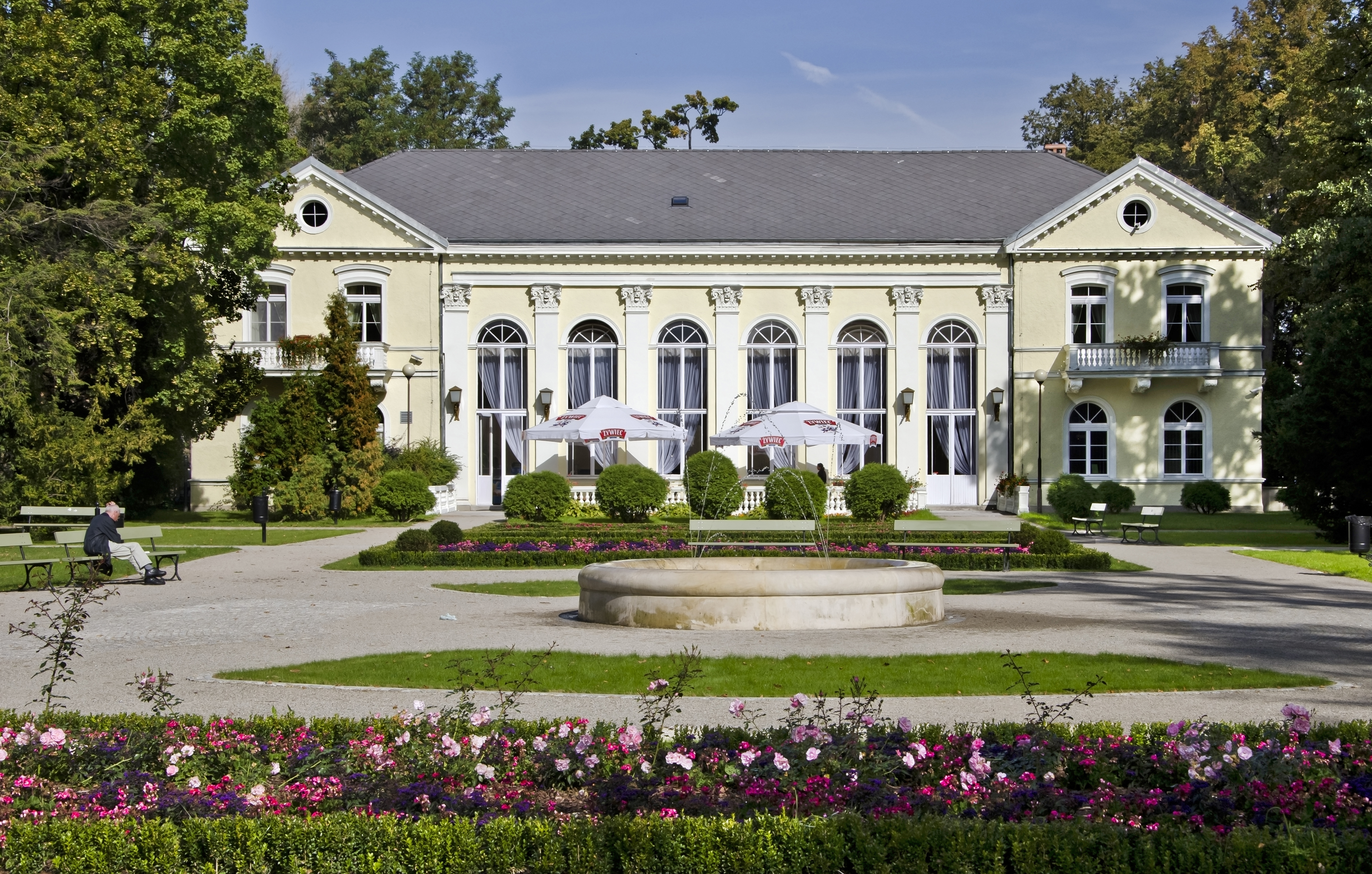 Edward Pavilion. Jelenia Góra. Poland.